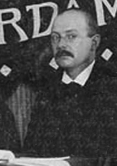 Gerrit Mannoury, 1911